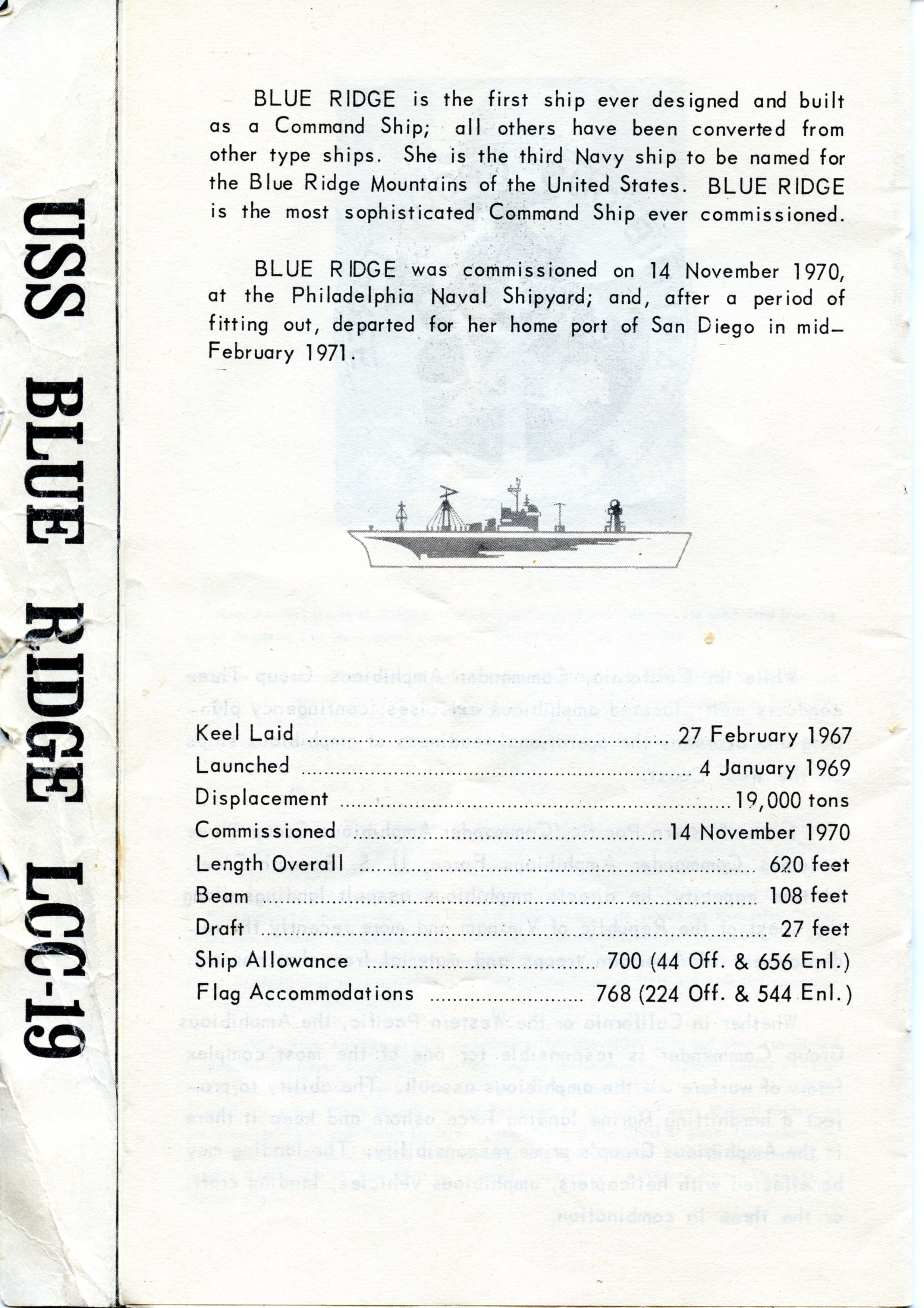 wyswyg